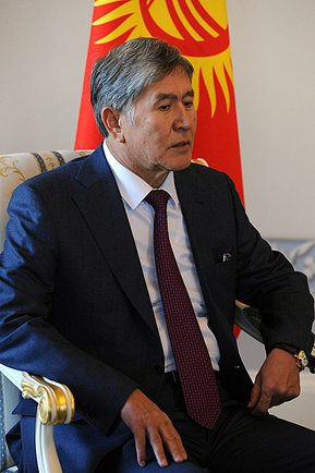 Meeting Vladimir Putin and Almazbek Atambayev 2015-03-16.